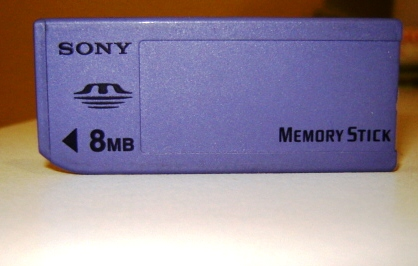 Sony Memorystick 8 MB